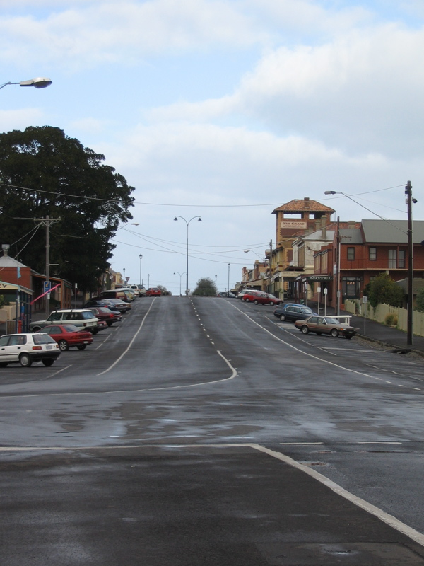 The main street of Queenscliff, Victoria, Australia.